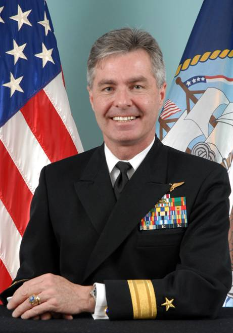 Kenneth Braithwaite official photo